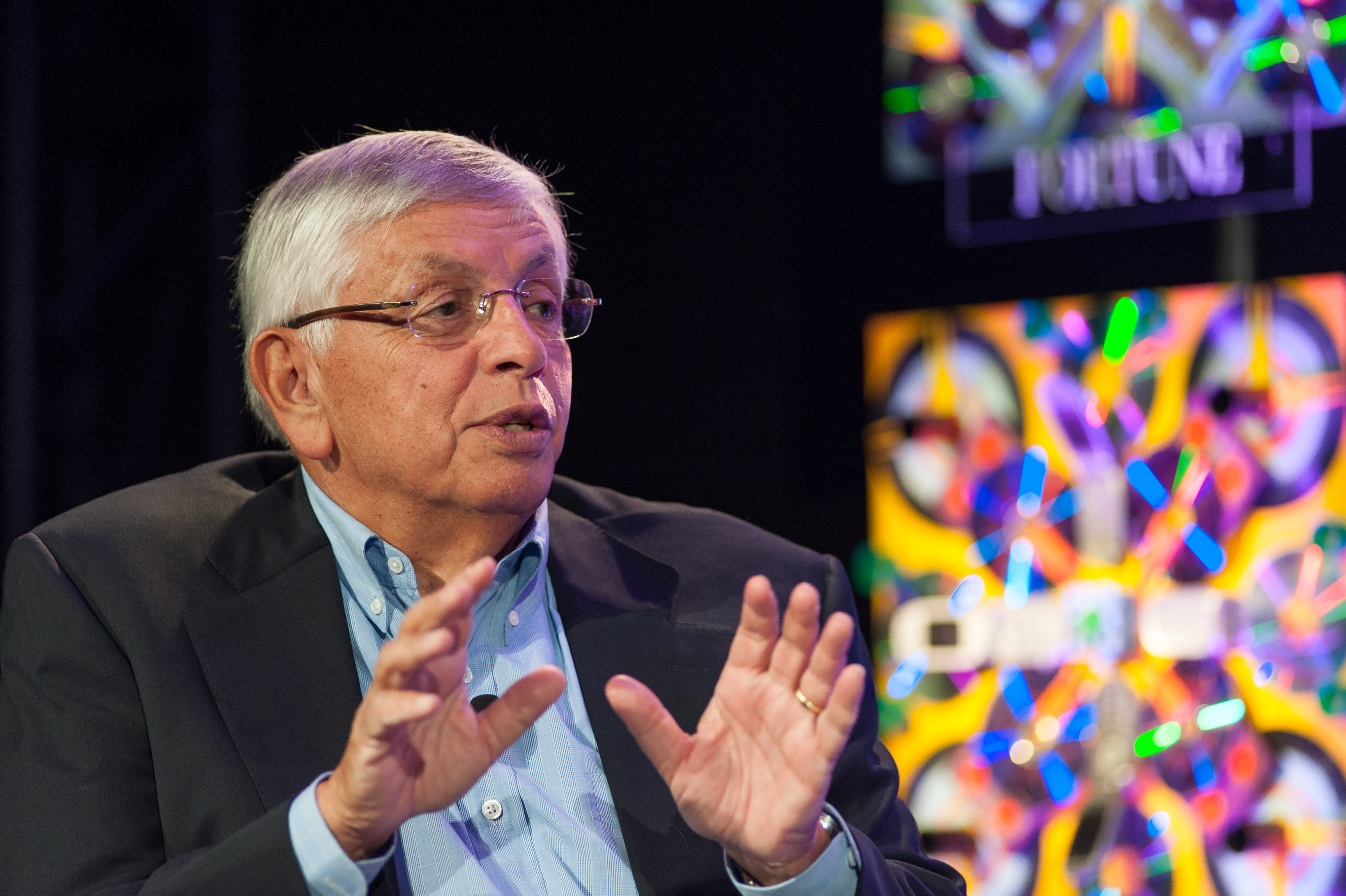 David Stern on Monday, July 16th, 2012. Aspen, CO, USA Photograph by Kevin Maloney/Fortune Brainstorm Tech